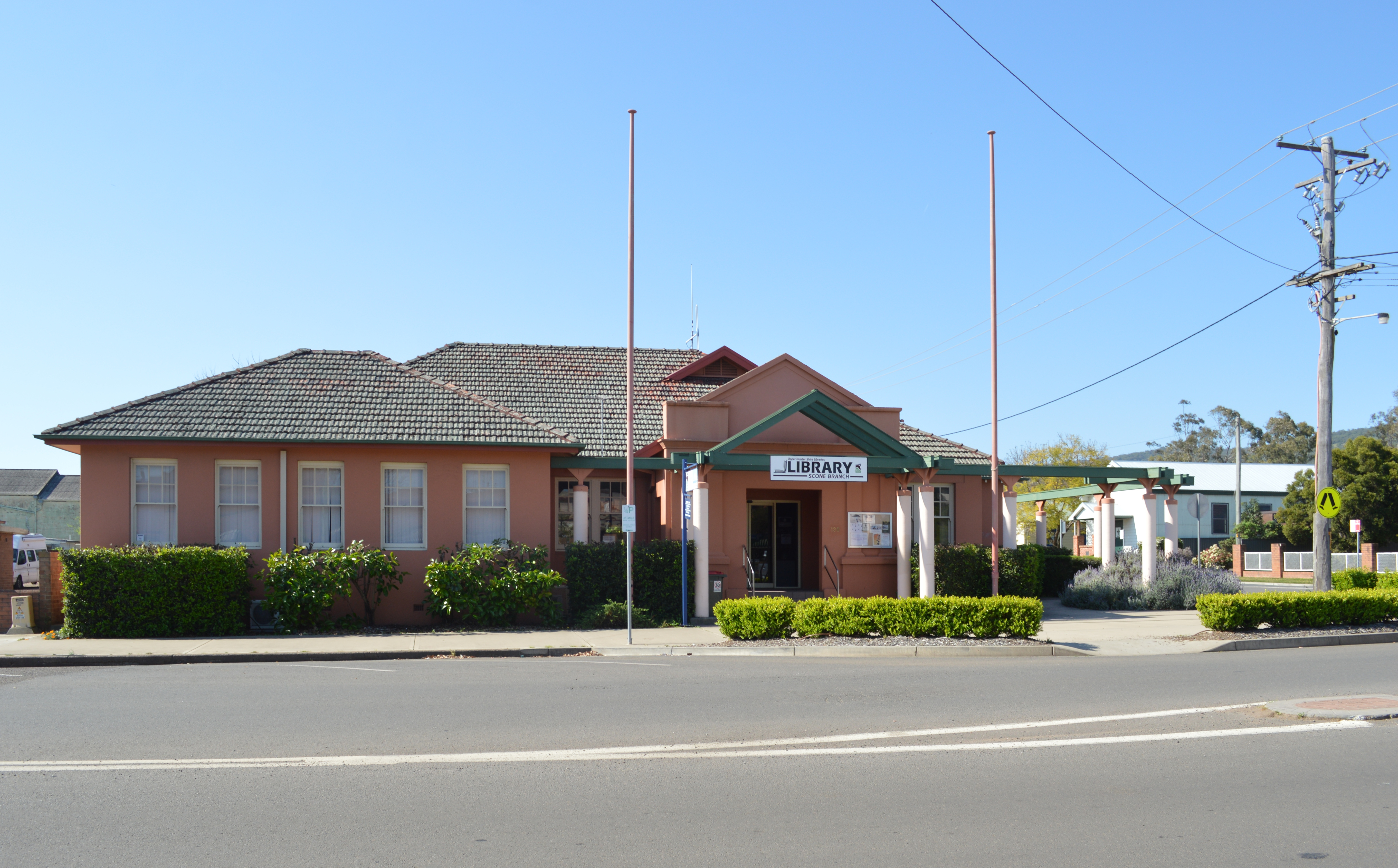 The library (former Council chambers) at Scone, New South Wales